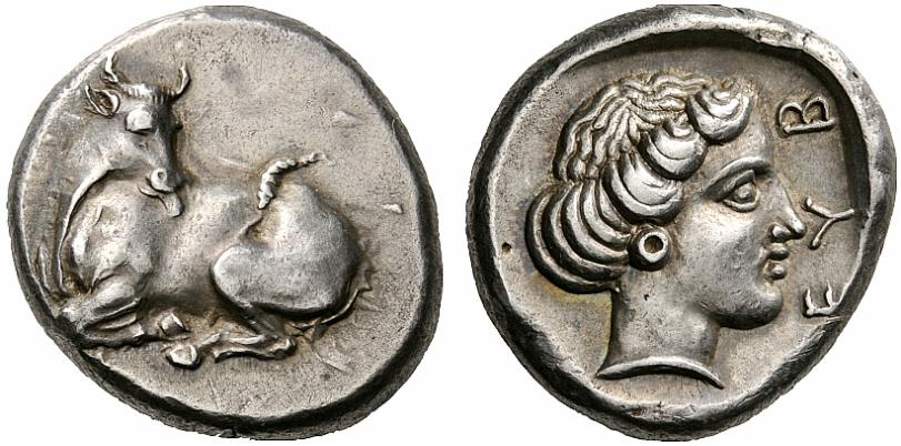 Euboia, Euboian League. Circa 375-357 BC. Stater (Silver, 12.28 g 6). Cow lying to left, turning her head back to right to lick her left shoulder. Rev. EUB Head of the nymph Euboia to right, wearing a ring-shaped earring and with her hair rolled. BCD 2 (this coin). McClean 5703 (same dies). Wallace 4 (dies III/2). Very rare. A superb piece, very sharply struck and with a wonderful freshness. Good extremely fine. From the collections of ACPW and BCD, ex Lanz 111, 25 November 2002, 2. The earliest coins of the Euboian League formed a small number of rare groups. The first series bore a cow, the canting badge of Euboia, on their obverse and the head of the eponymous nymph on the reverse. The second, and all later issues, removed the cow to the reverse and left the obverse to the nymph. This was surely due to the influence of other familiar coinages, especially that of Athens with its famous owl on the reverse. NOMOS3, 85